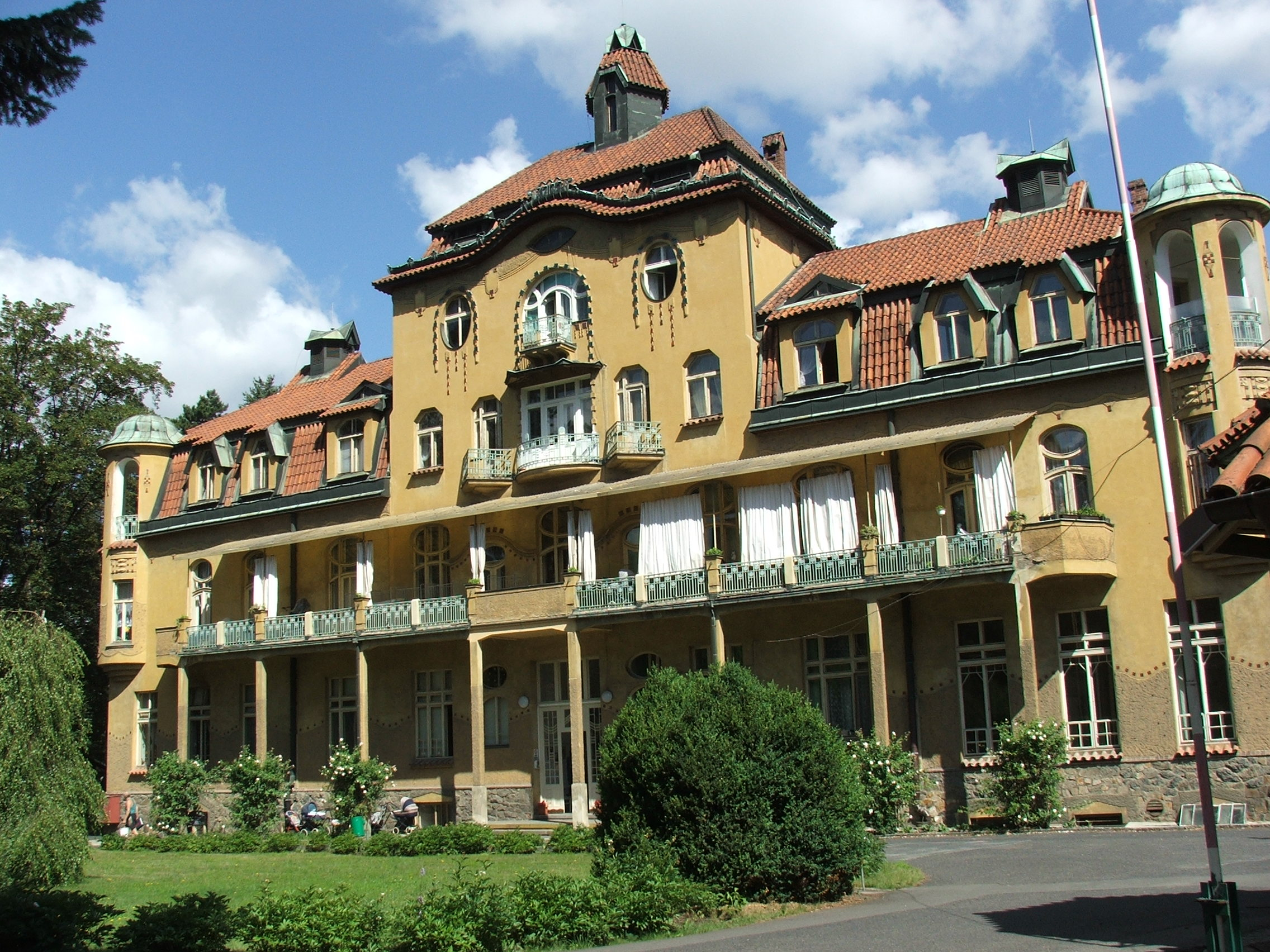 Prague - Krč, Czechia, Kojenecký ústav - Hospital - (social affairs institute) for infants